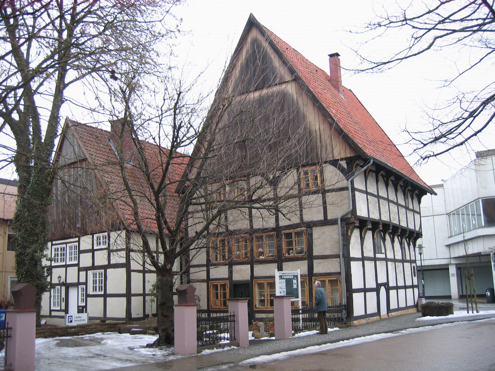 in Herford, District of Herford, North Rhine-Westphalia, Germany.